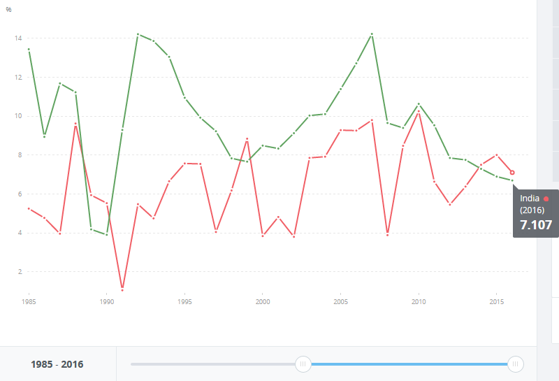 India GDP growth rate from 1985 to 2016 (Red line) compared to that of China (Green line). World Bank Chart